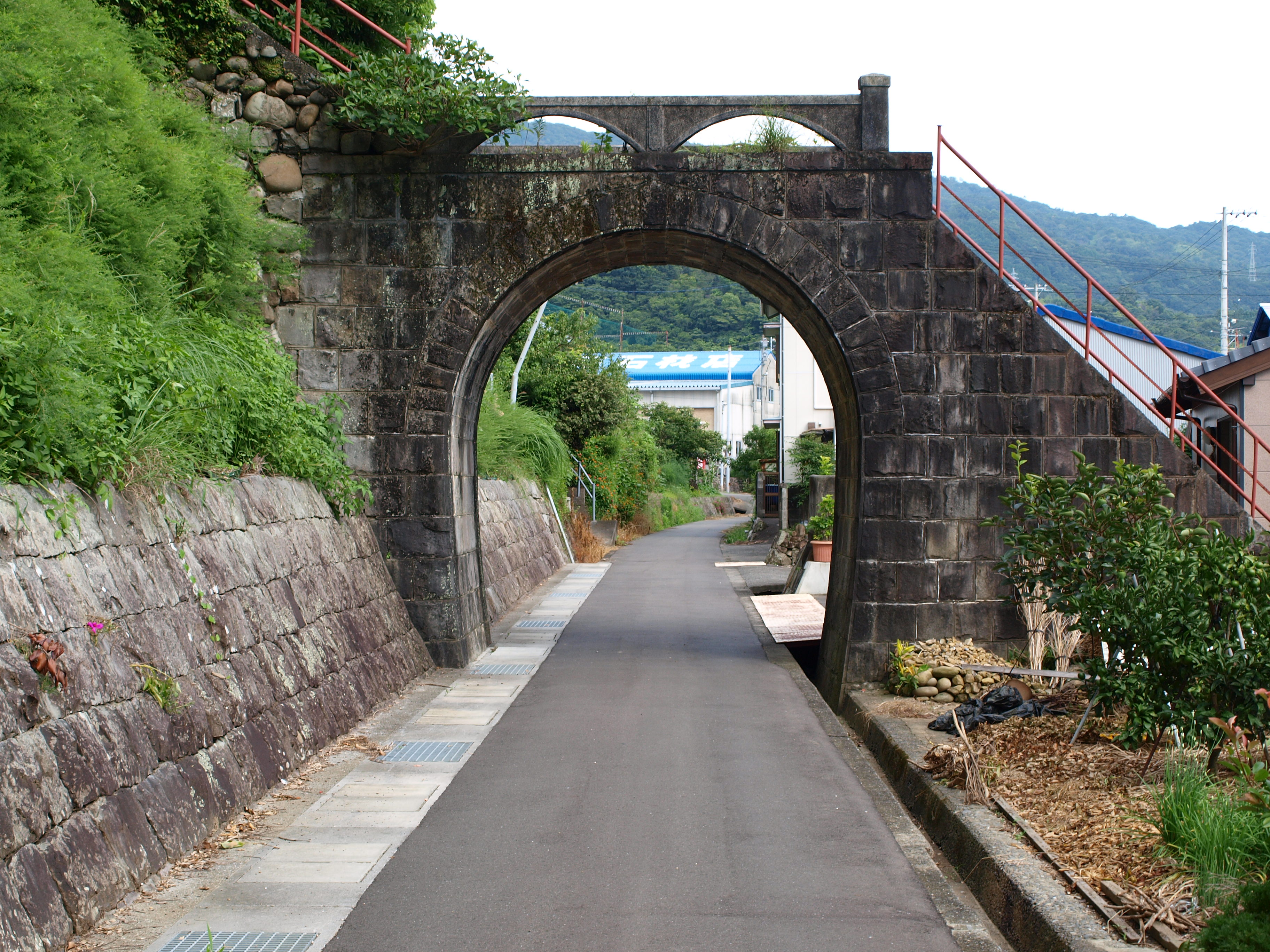 Nahari bridge over railway, Yanase forest railway.